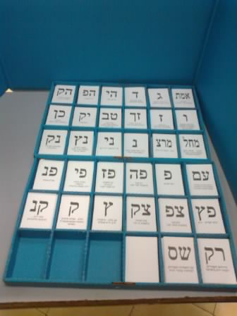 Ballots papers of Israeli legislative election, 2013